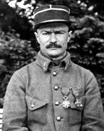 Vedrines military 1 350